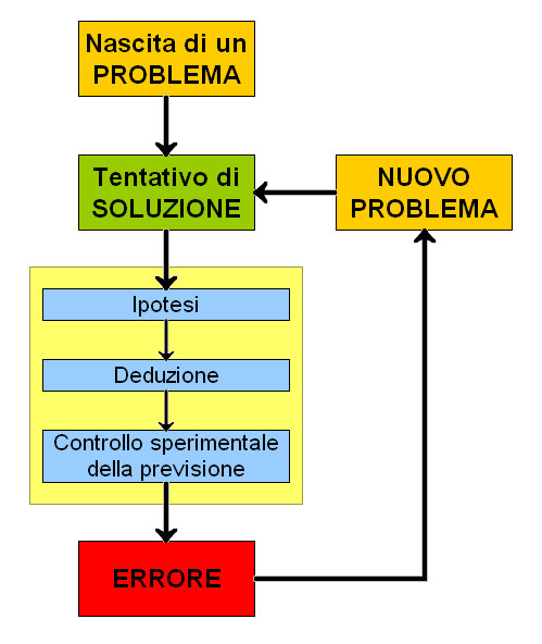 Pattern of scientific method (deductive reasoning)